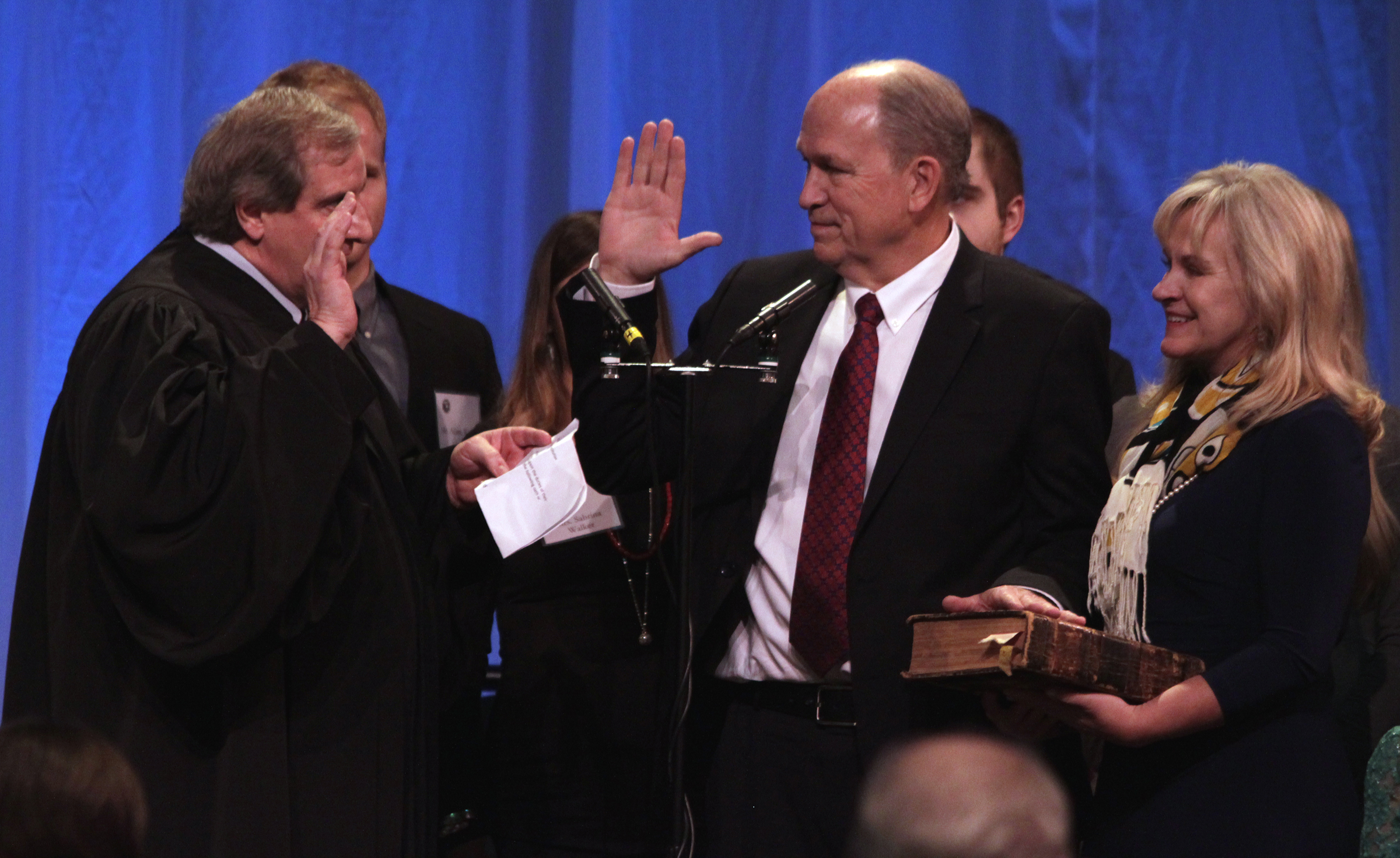 Bill Walker puts his hand on his family Bible, held by his wife, Donna Walker, as he takes the oath of office to become the 11th governor of the state of Alaska on Dec. 1, 2014 in Juneau, Alaska's Centennial Hall. (James Brooks photo)